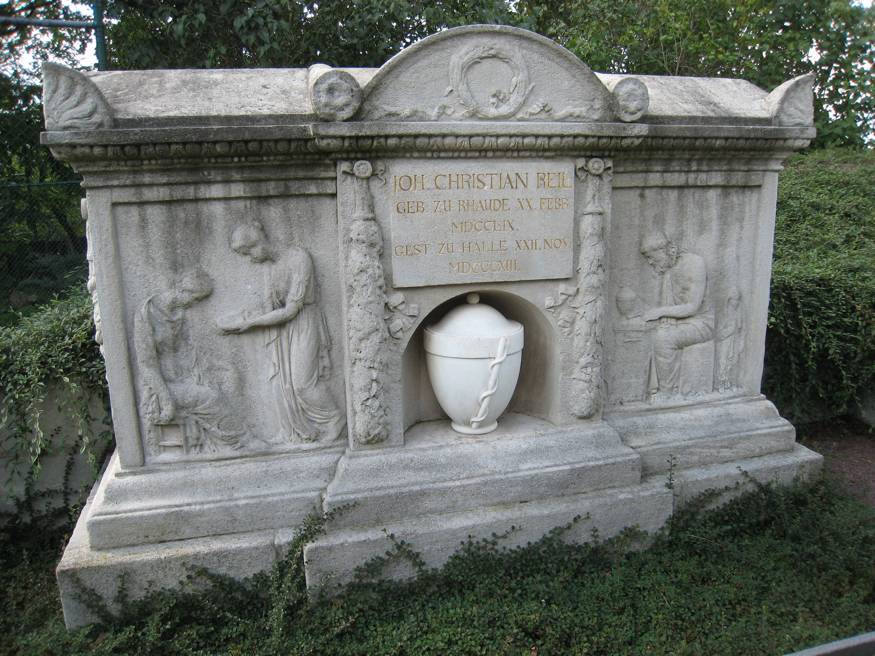 Tomb of Johann Christian Reil in Halle